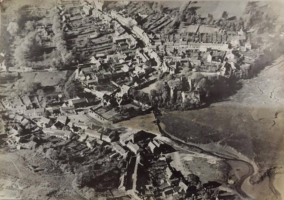 This is a copy of an old postcard of unknown origin and author cropped from an RAF aerial survey photograph of Laugharne taken in in 1948. RAF Aerial Photograph Laugharne Castle, Carmarthen (Classmark: K-E19 Date of Creation: 1948-07-26 Comparison of postcard and 1948 RAF image